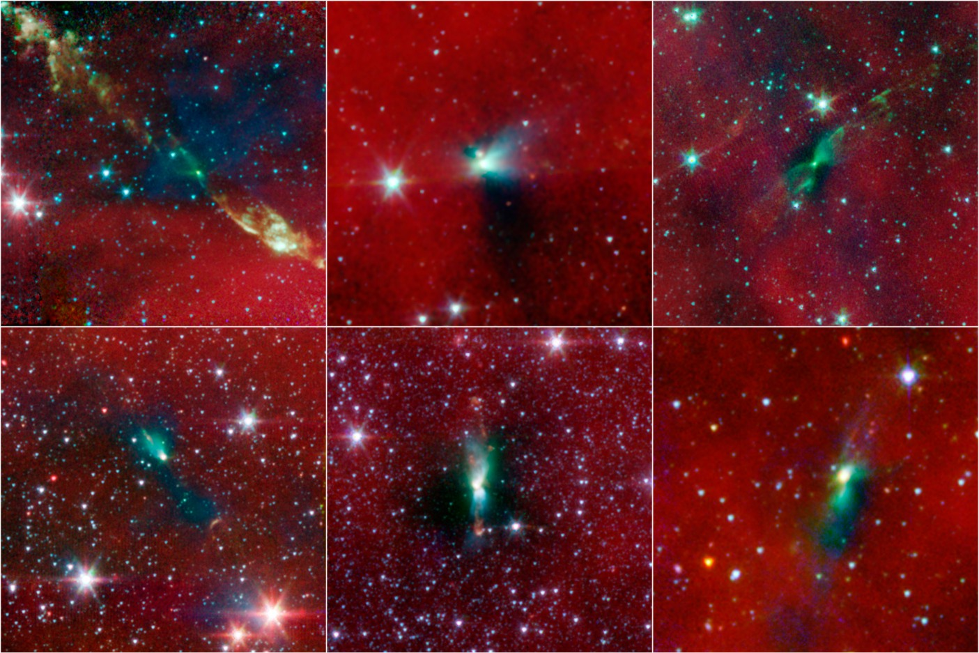 New evidence from NASA's Spitzer Space Telescope is showing that tight-knit twin stars might be triggered to form by asymmetrical envelopes like the ones shown in this image. All stars, even single ones like our sun, are known to form from collapsing clumps of gas and dust, called envelopes, which are seen here around six forming star systems as dark blobs, or shadows, against a dusty background. The greenish color shows jets coming away from the envelopes. The envelopes are all roughly 100 times the size of our solar system. Two of the six star systems are known to have already formed twin, or binary stars (Spitzer can see the envelopes but not the stars themselves). Astronomers believe that the irregular shapes of the envelopes, revealed in detail by Spitzer, might trigger binary stars to form, or might have already triggered them to form. From top left, moving clockwise, the stars are: IRAS 03282+3035, CB230, IRAS 16253-2429, L1152, L483, HH270 VLA1. IRAS 03282+3035 and CB230 are the two known to have already formed binary stars. Infrared light with a wavelength of 3.6 microns has been color-coded blue; 4.5-micron li